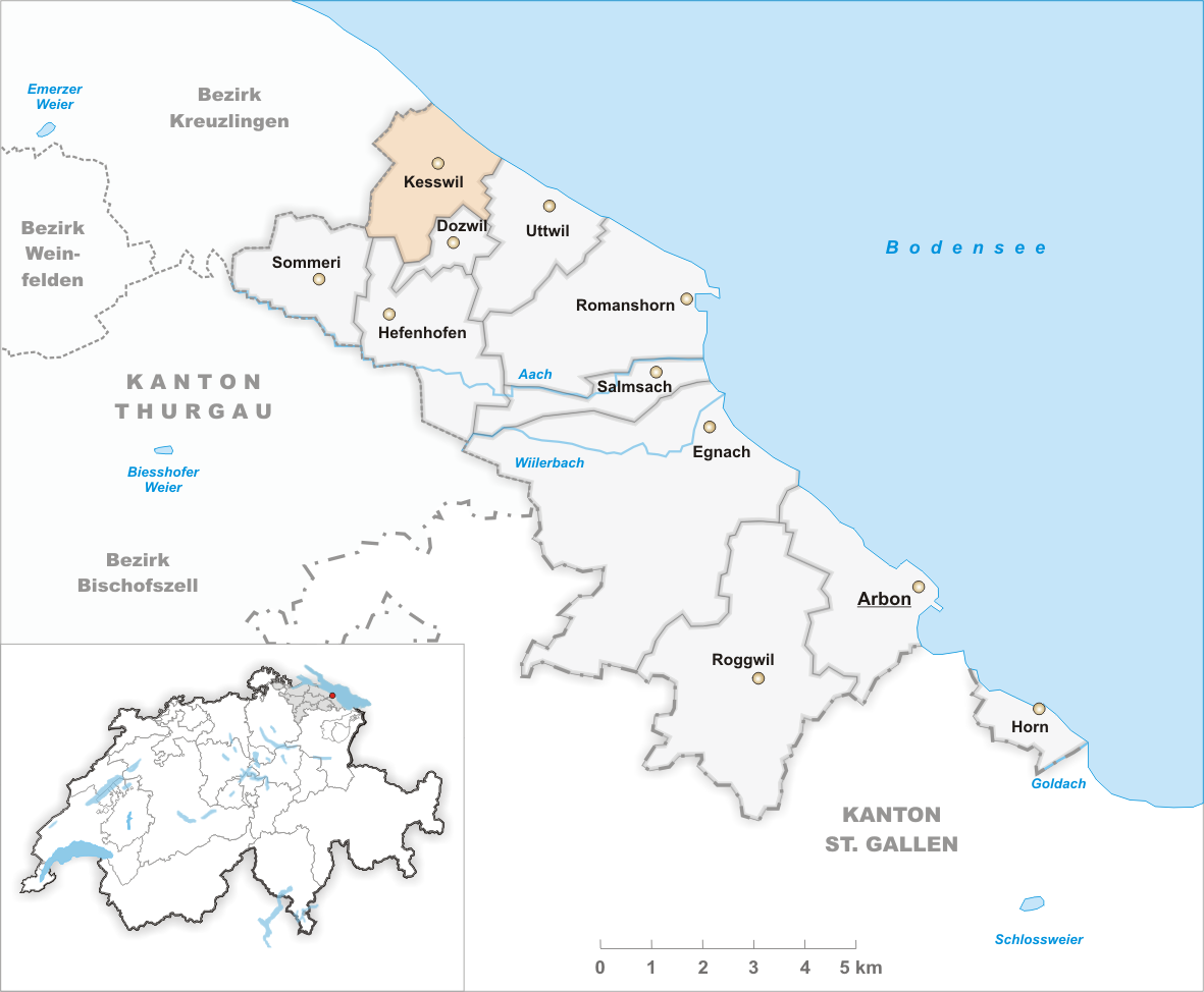 Municipality Kesswil